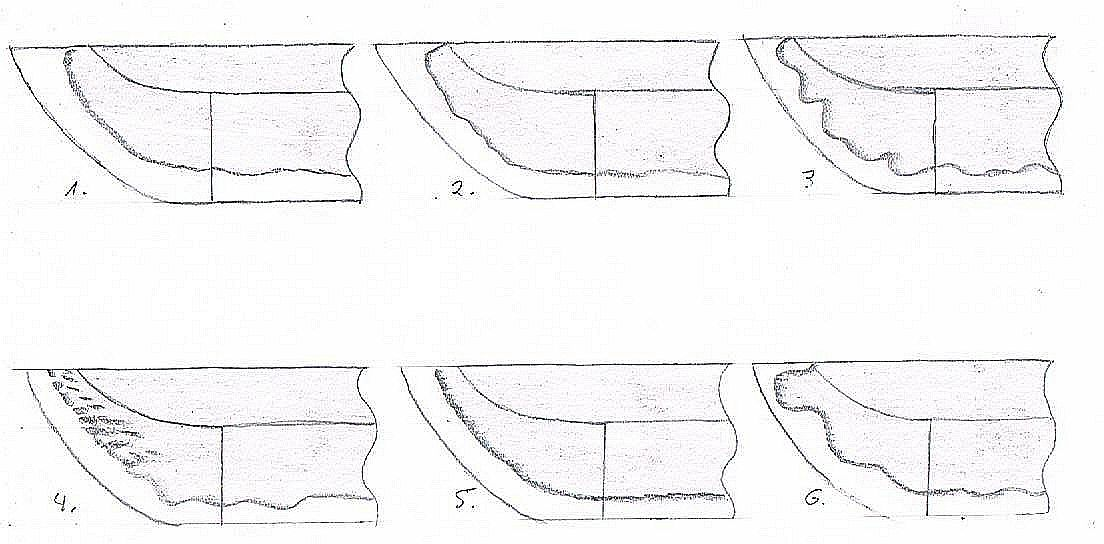 Types of Boshi